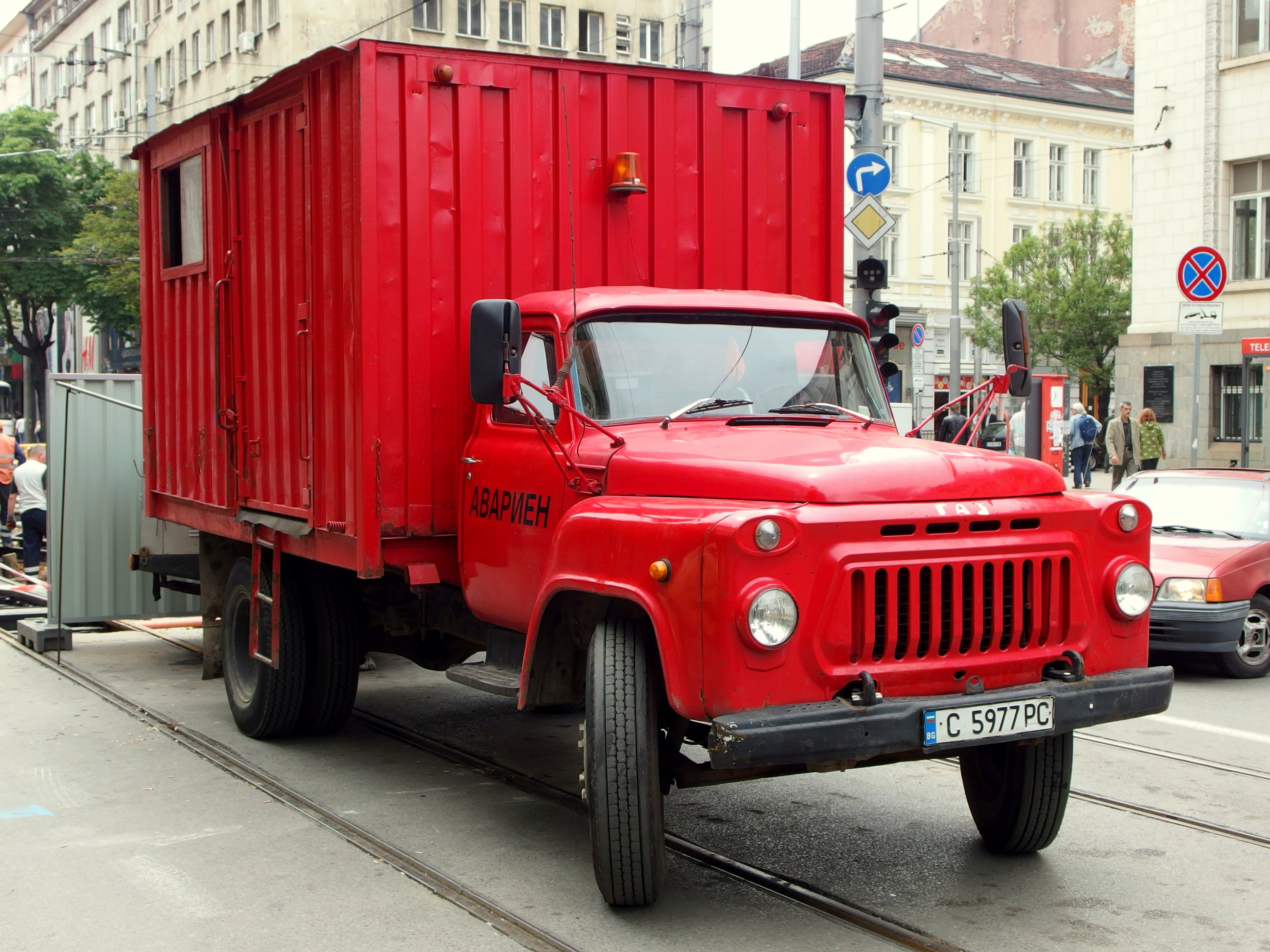 2014-06-16 in Sofia.